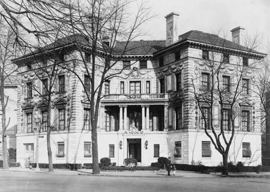 [Aerial view, Washington, D.C.] .